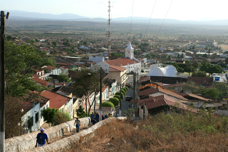 Overview of Brazilian municipality Monte Santo (Bahia).